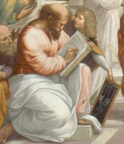 The School of Athens Fresco, width at the base 770 cm Stanza della Segnatura, Palazzi Pontifici, Vatican